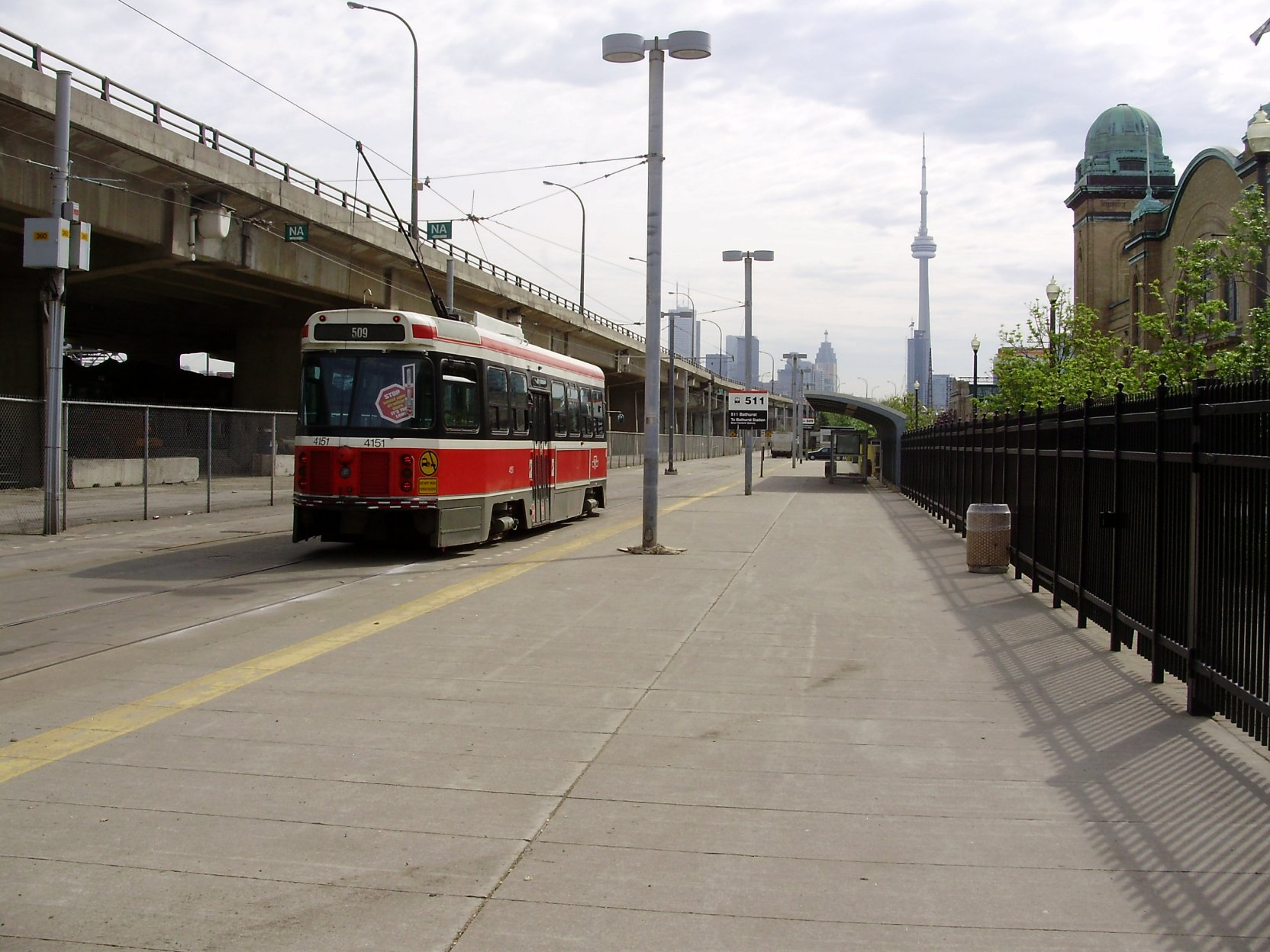 Eastbound Toronto Transit Commission CLRV #4151 departs Exhibition Loop, bound for Union Station.